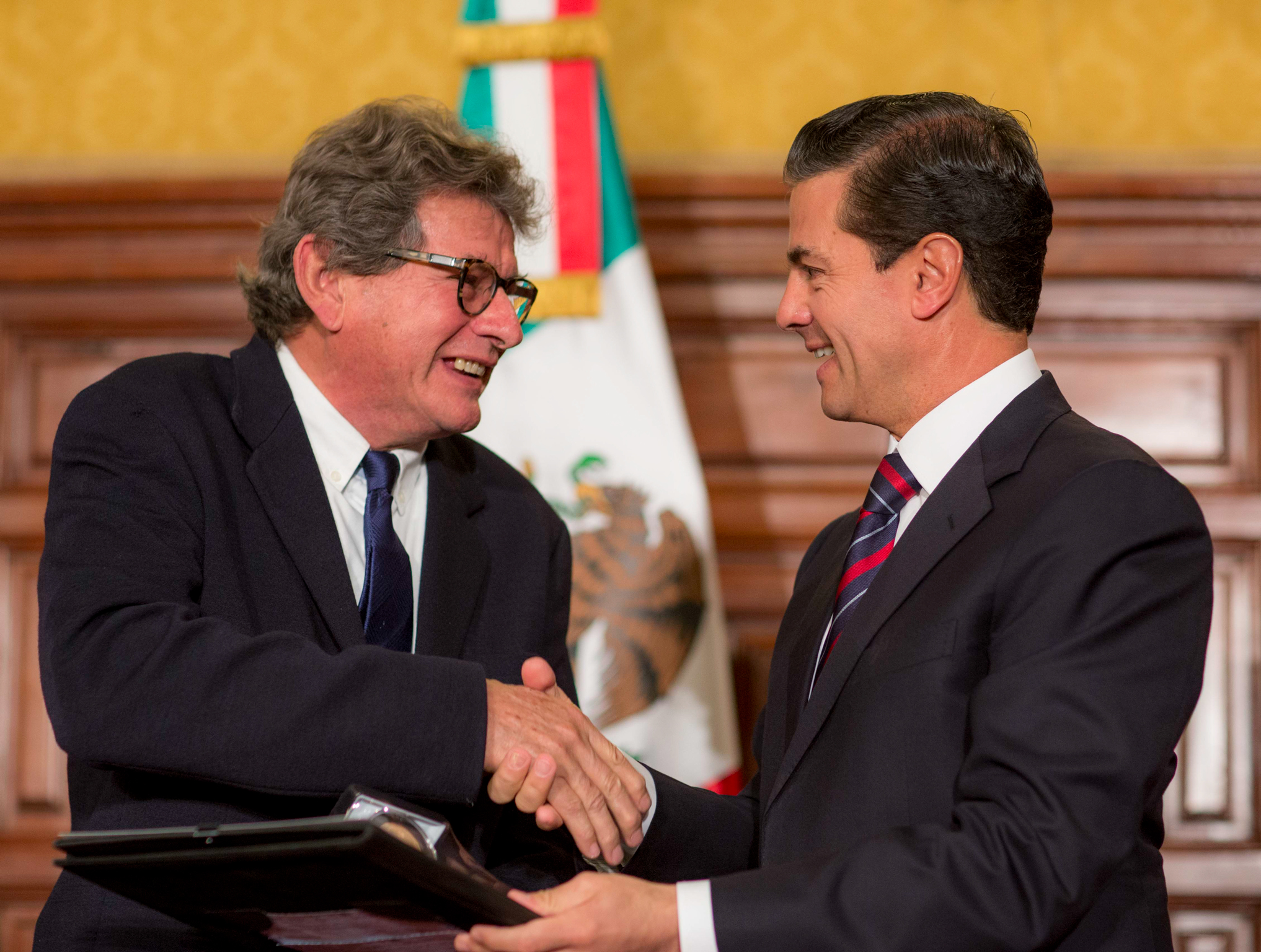 Nicolas Echevarria receiving Arts and Literature National Prize 2017 from president Enrique Peña Nieto.